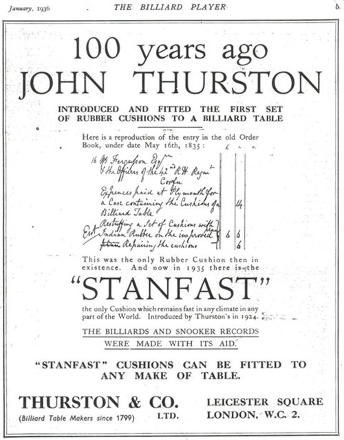 Advertising to the 100. anniversary of the invention of rubber cushions.